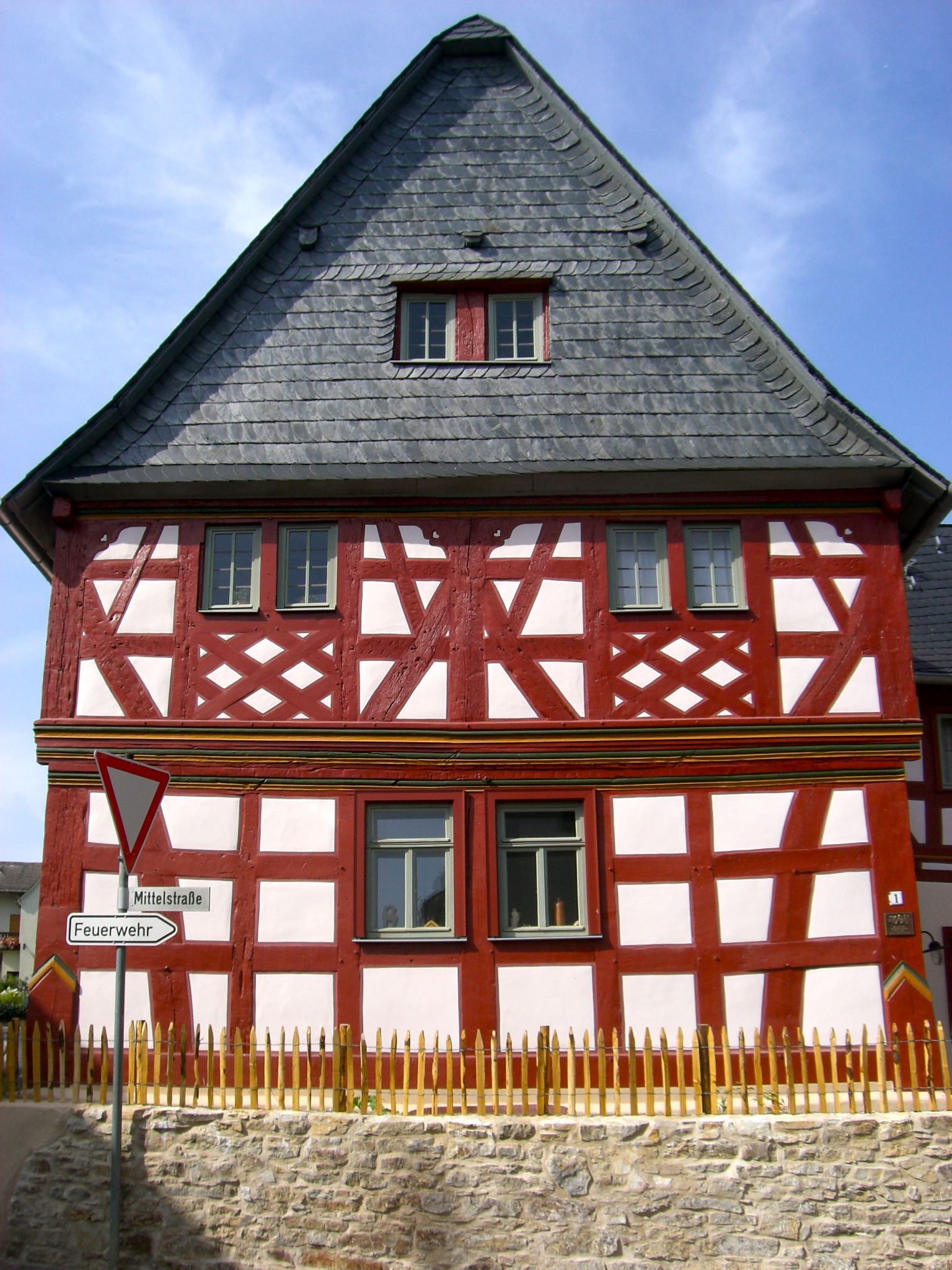 Hessian Monument Protection Award 2010